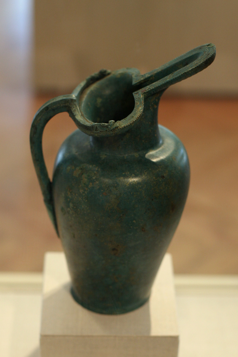 Metropolitan Museum of Art # 12.160.3 Photographer: Katie Chao